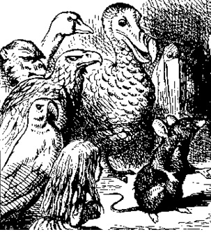 The group of animals that feature in the Caucus Race.